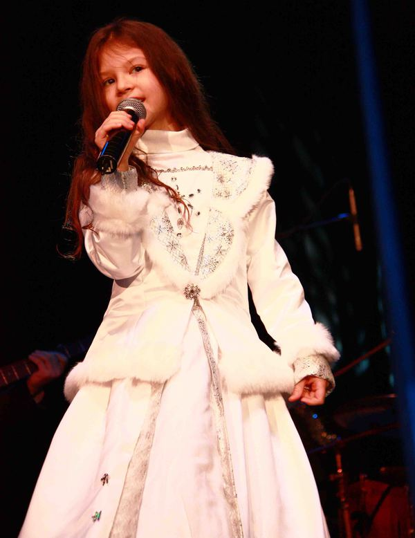 Cleopatra Stratan performing